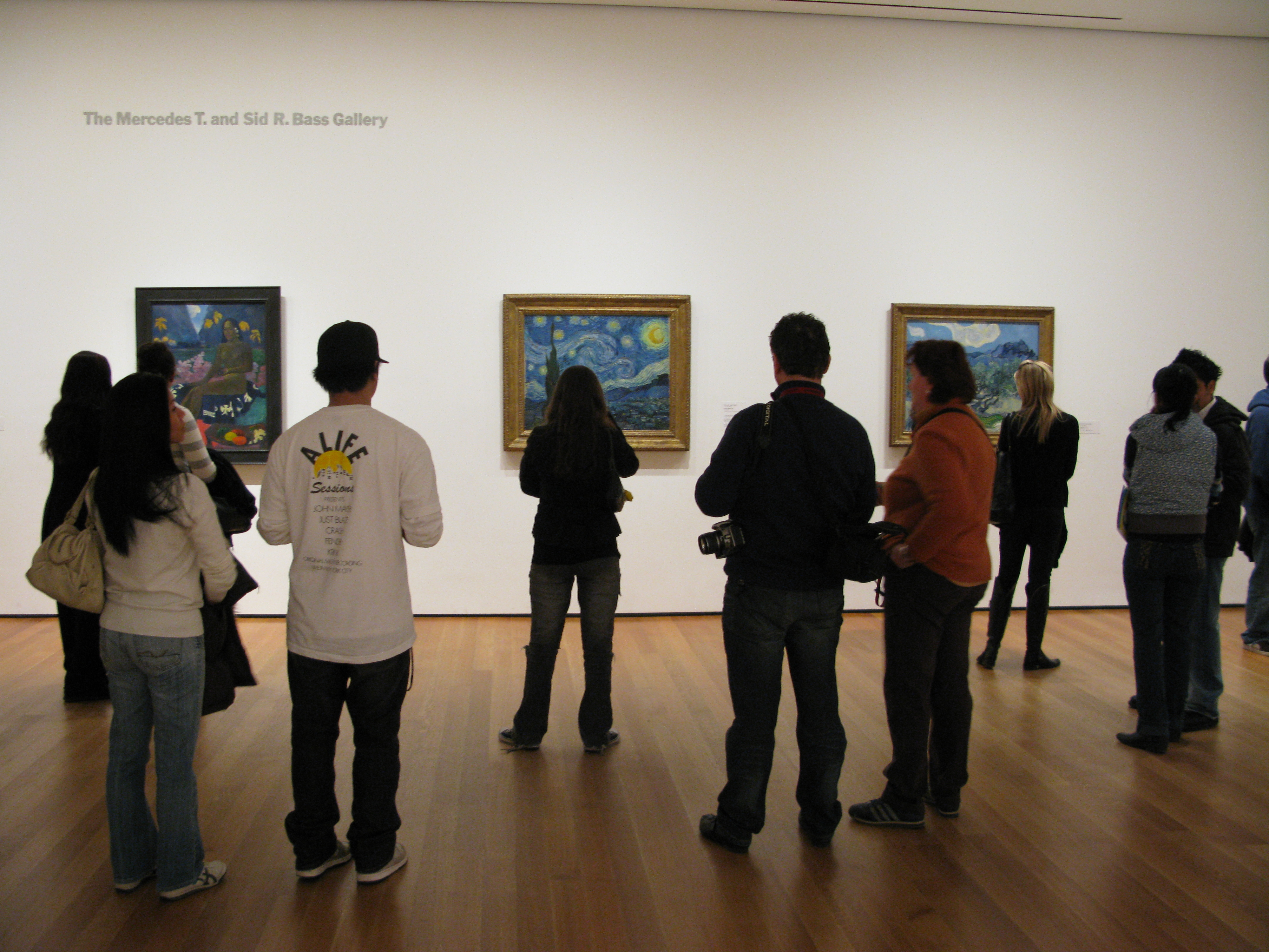 The Starry Night as it appears in the Museum of Modern Art.